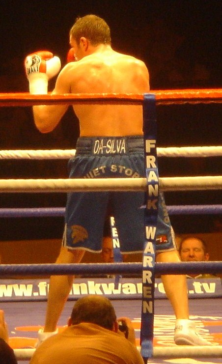 Irish boxer Matthew Macklin